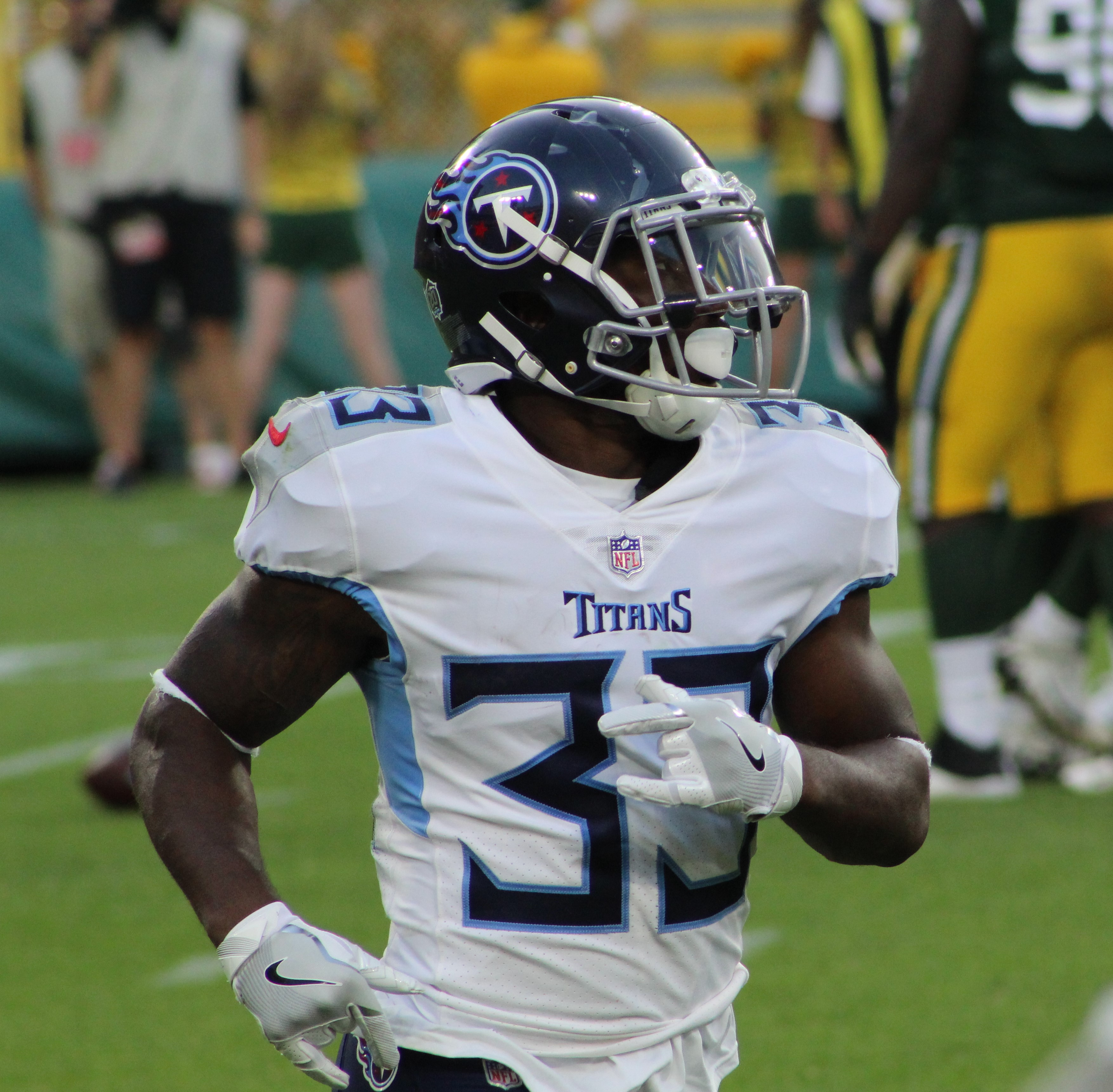 Dion Lewis, Tennessee Titans at Green Bay Packers (Preseason), August 9, 2018